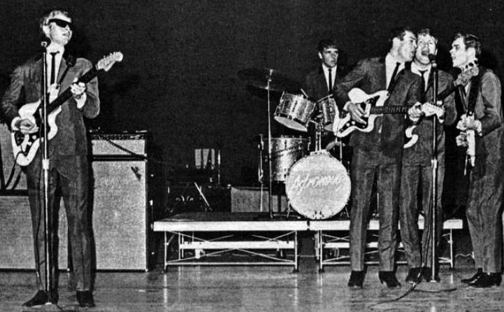 Photo of the music group The Astronauts.